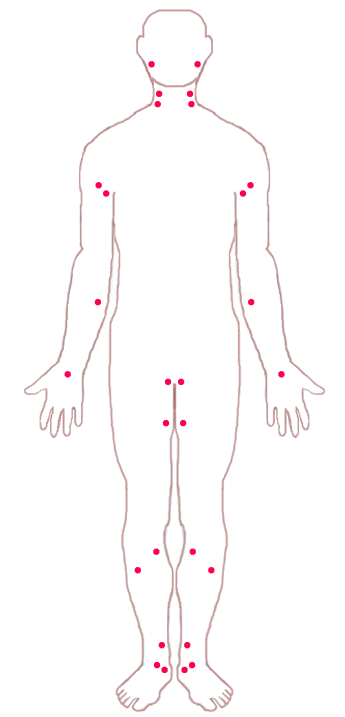 A schematic showing the arterial pressure points. The providing of pressure on one of these points near the location of a cut will stop the bleeding. The wounded body part will also need to be held as high as possible (keep it above above the heart). The schematic was made based on an image in the book "The Sailor's Handbook by H.C. Herreshoff, and the image was made as a basis.